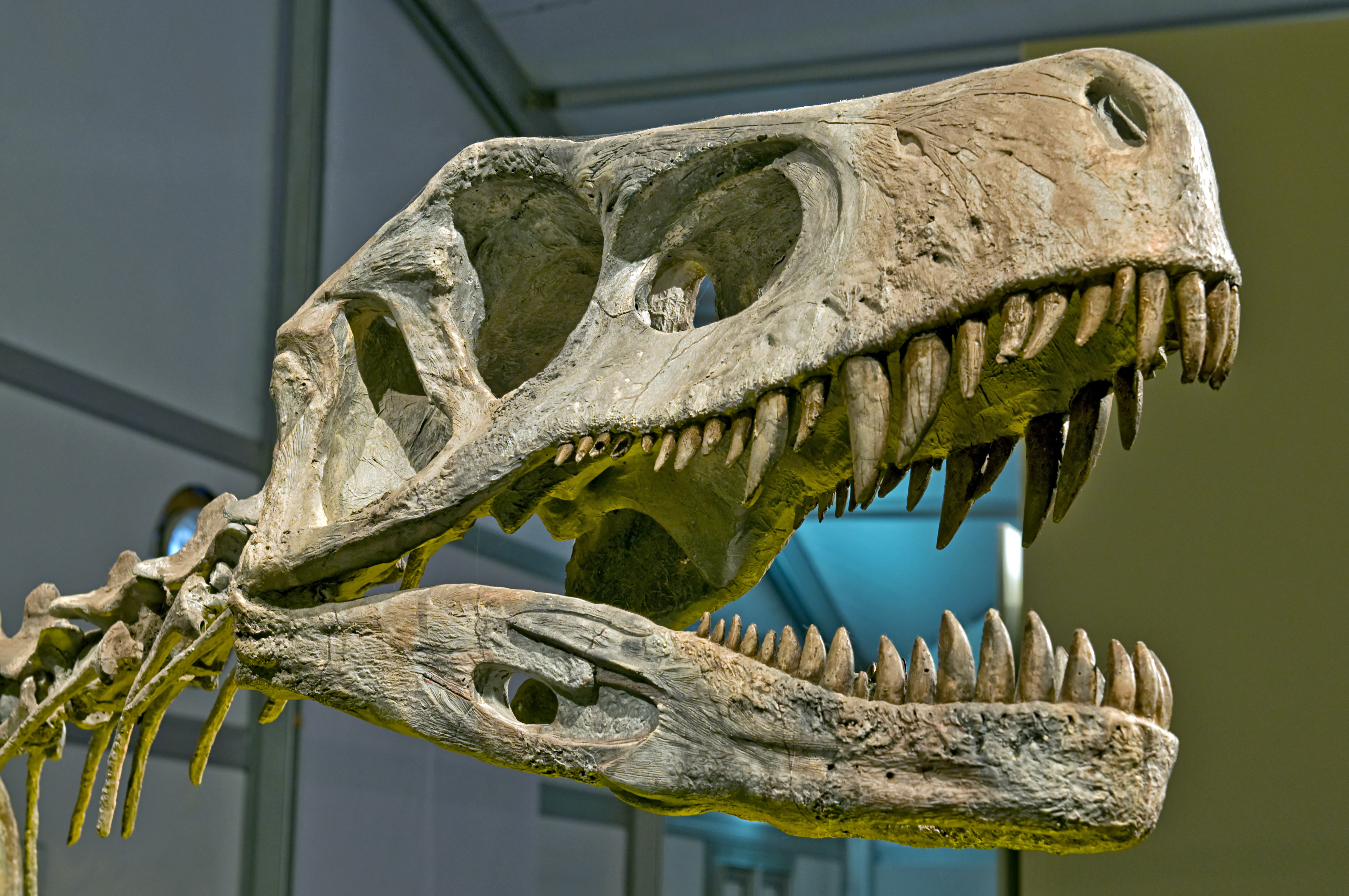 Skull replica of a Frenguellisaurus ischigualastensis